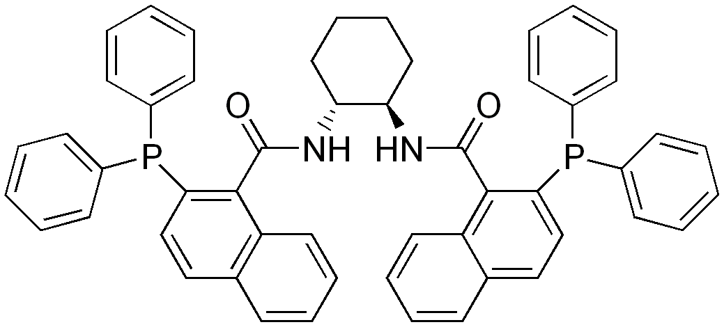 chemical structure of the modifided Trost's ligand, (S,S)-DACH-naphthyl Trost ligand, or (1S,2S)-(-)-1,2-diaminocyclohexane- N,N'-bis(2-diphenylphosphino- 1-naphthoyl)